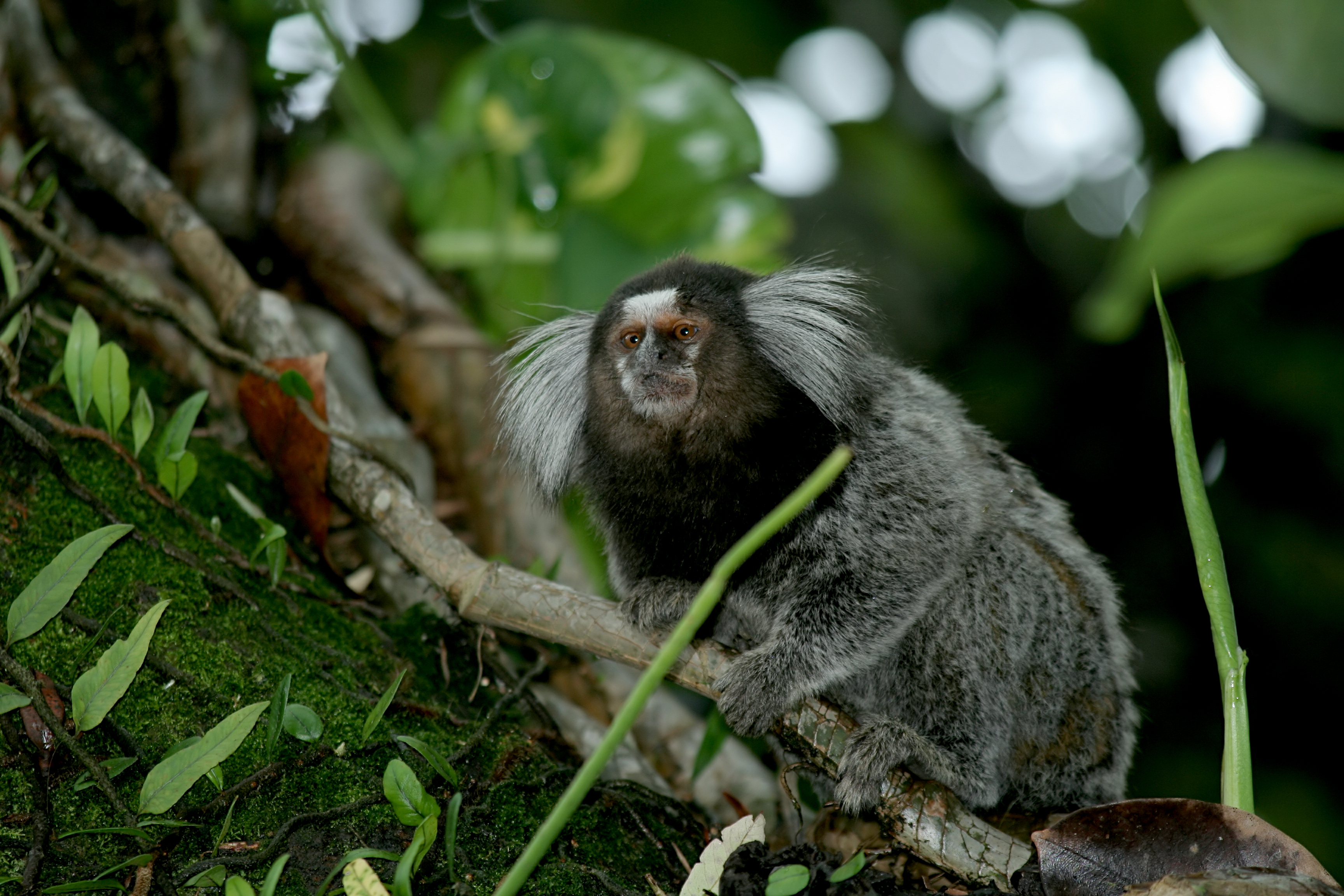 Callithrix jacchus